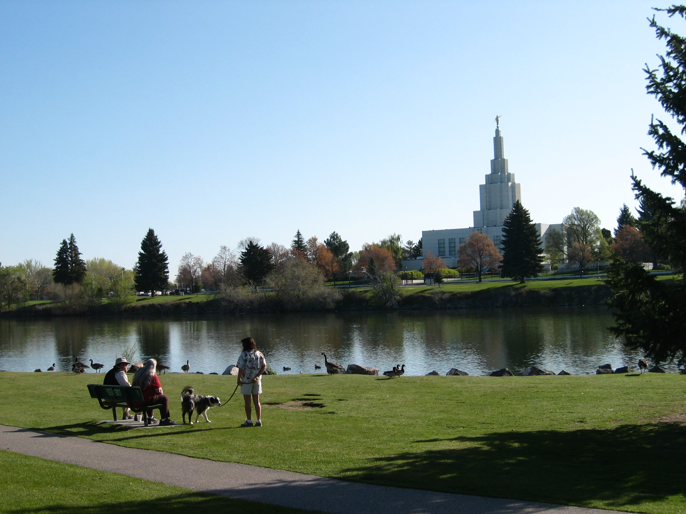 Park along the Snake River, across from the Idaho Falls Idaho Temple of The Church of Jesus Christ of Latter-day Saints.